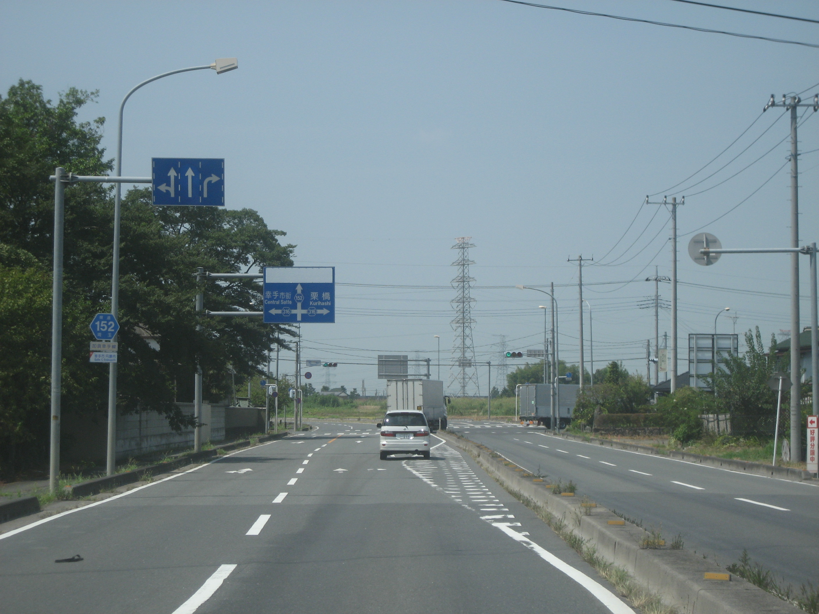 The Saitama Prefectural Road Route 152 bypass in Satte City